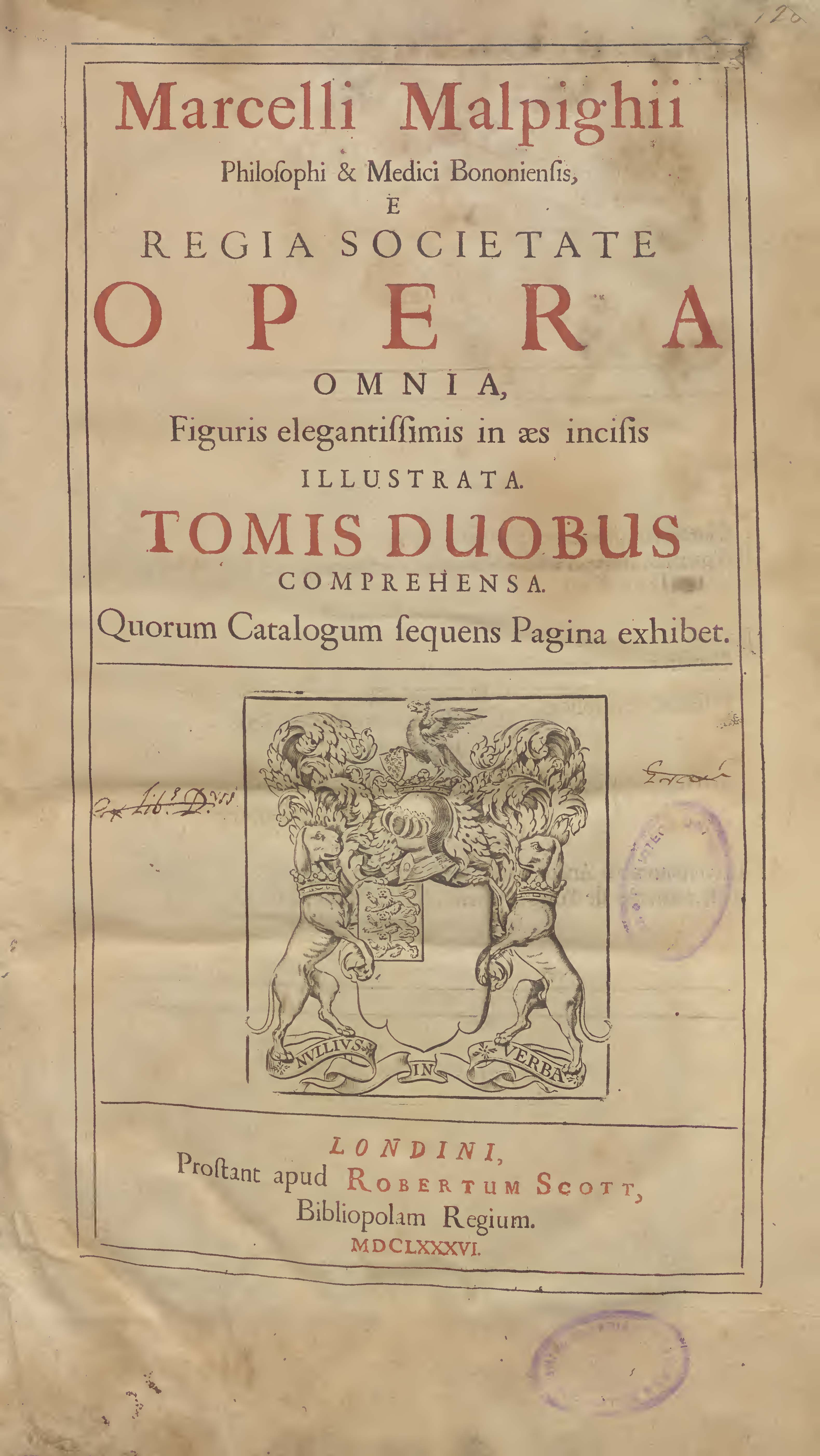 Frontespice Marcello Malpighi's "Opera Omnia" London 1696